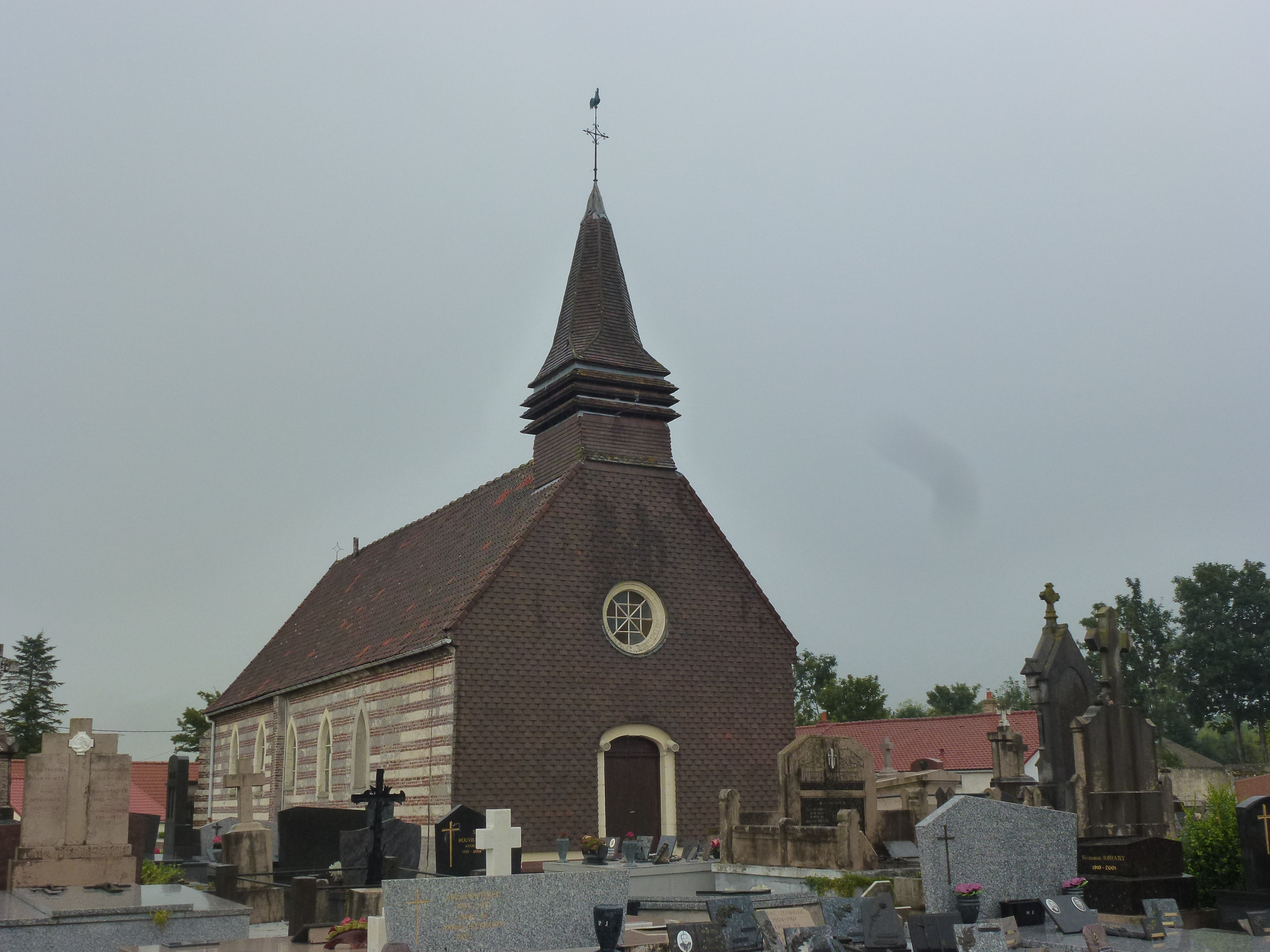 Andres (Pas-de-Calais) église